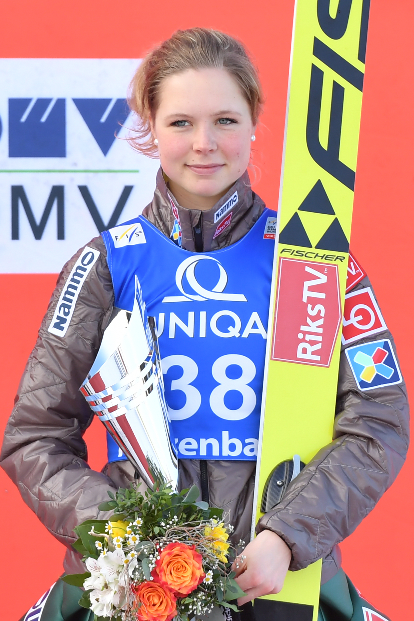 05/02/17, Hinzenbach, Austria, FIS Ski Jumping World Cup Ladies 2017